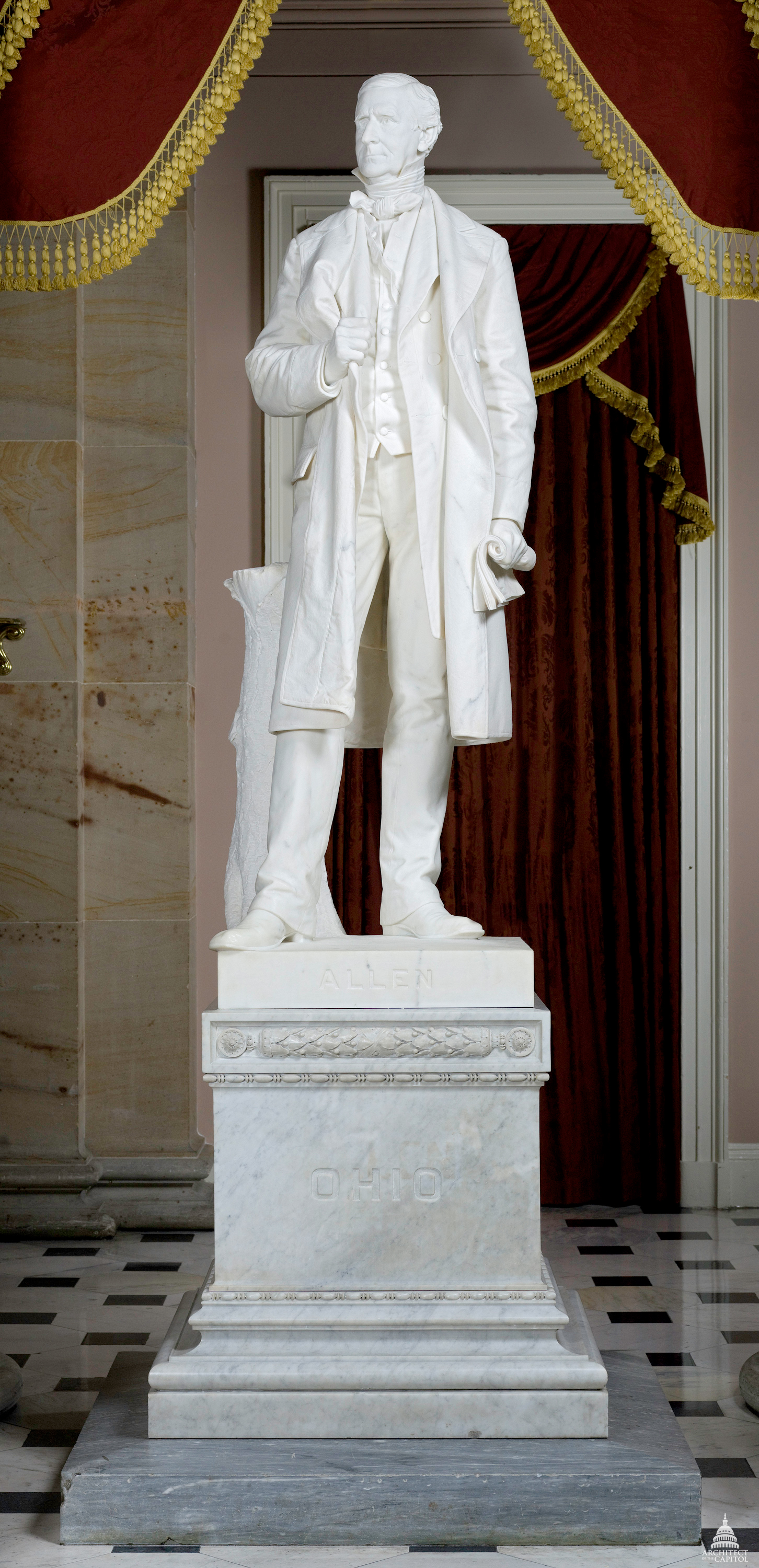 William Allen (1803-1879) Ohio Marble by Charles H. Niehaus Given in 1887 National Statuary Hall U.S. Capitol This official Architect of the Capitol photograph is being made available for educational, scholarly, news or personal purposes (not advertising or any other commercial use). When any of these images is used the photographic credit line should read “Architect of the Capitol.” These images may not be used in any way that would imply endorsement by the Architect of the Capitol or the United States Congress of a product, service or point of view. For more information visit